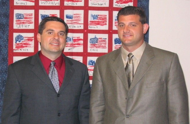 David Valadao, a dairy farmer in Hanford, visited Congressman Nunes on behalf of the National Milk Producers Federation (June 2004)